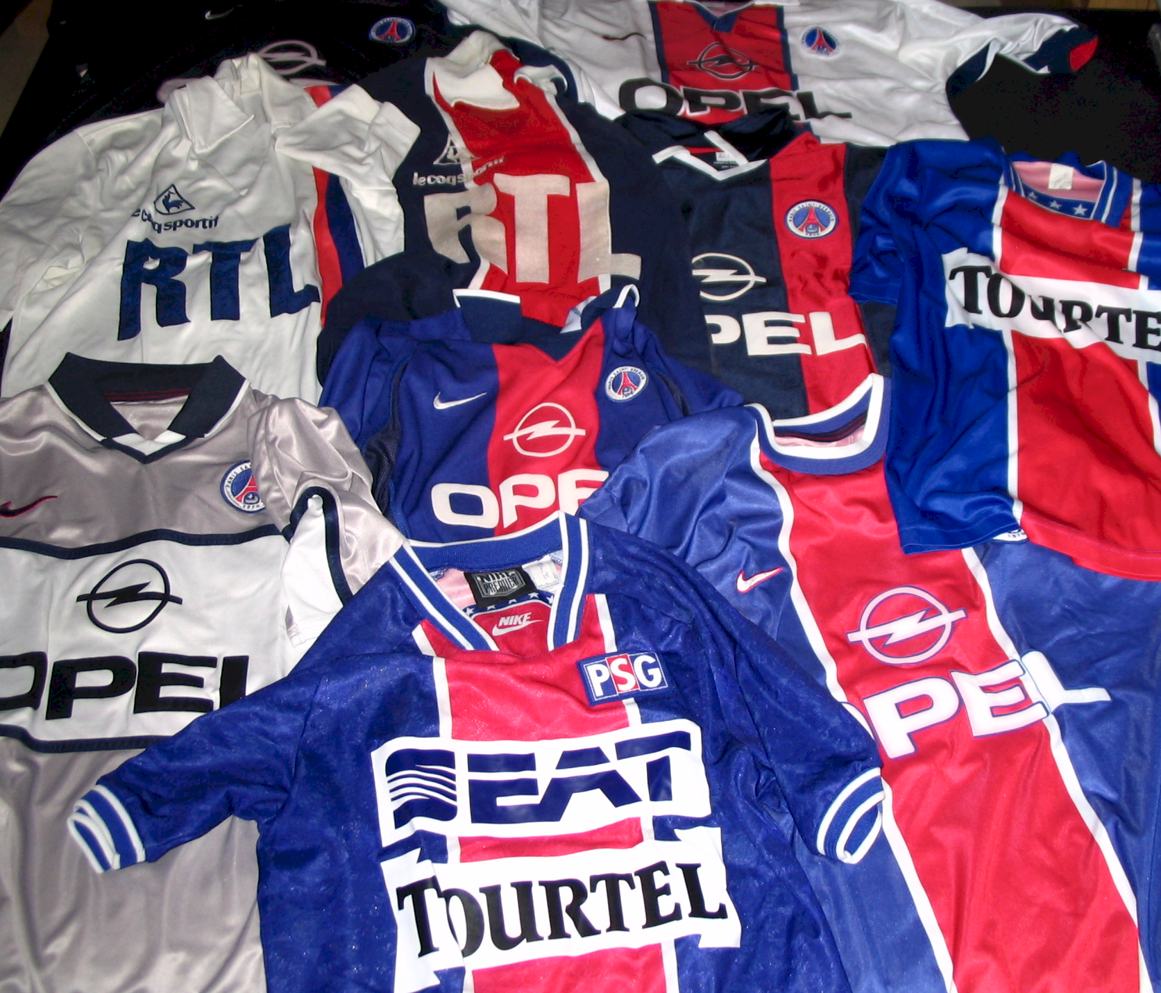 Own picture of my PSG shirts collection.